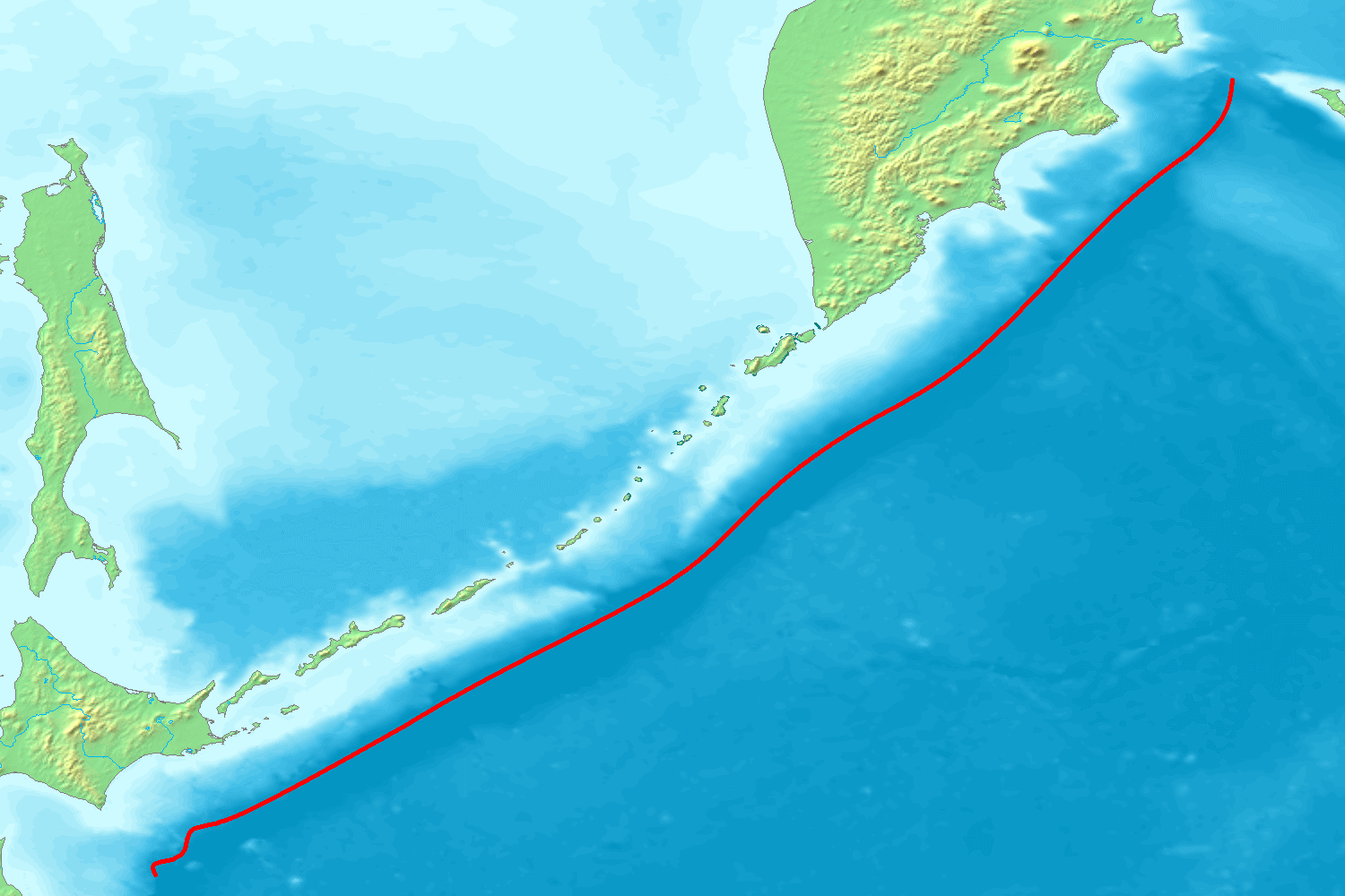 Map of the Kuril-Kamchatka Trench(a trench near the south coast of Kuril Islands and Kamchatka peninsula).